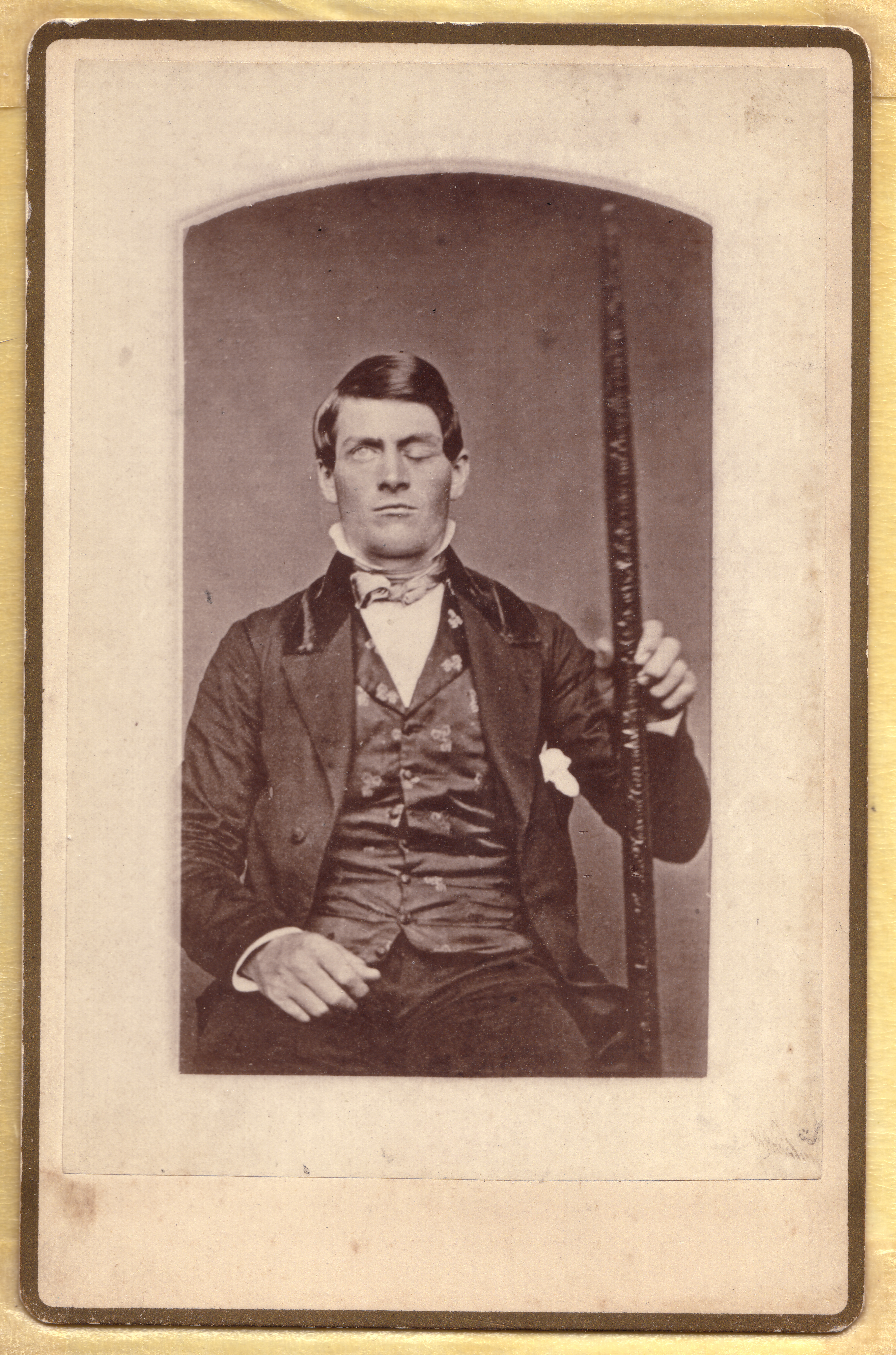 Cabinet-card portrait of brain-injury survivor Phineas P. Gage (1823–1860), shown holding the tamping iron which injured him. From the Gage family of Texas photo collection. An identical image is in the possession of Phyllis Gage Hartley of New Jersey. Because a daguerreotype is almost always laterally (left-right) reversed, a second, compensating reversal has been applied to produce this image, so as to show Gage as he appeared in life; that this shows Gage correctly is confirmed by contemporaneous medical reports describing his injuries, as well as from the injuries visible in Gage's skull, still preserved.